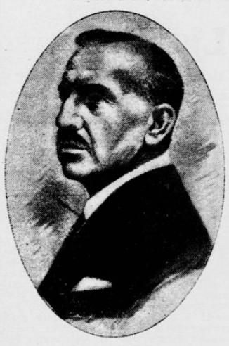 Momčilo Ninčić (28 May 1876 - 23 December 1949), Serbian politician and economist, and president of the League of Nations 1926-27.